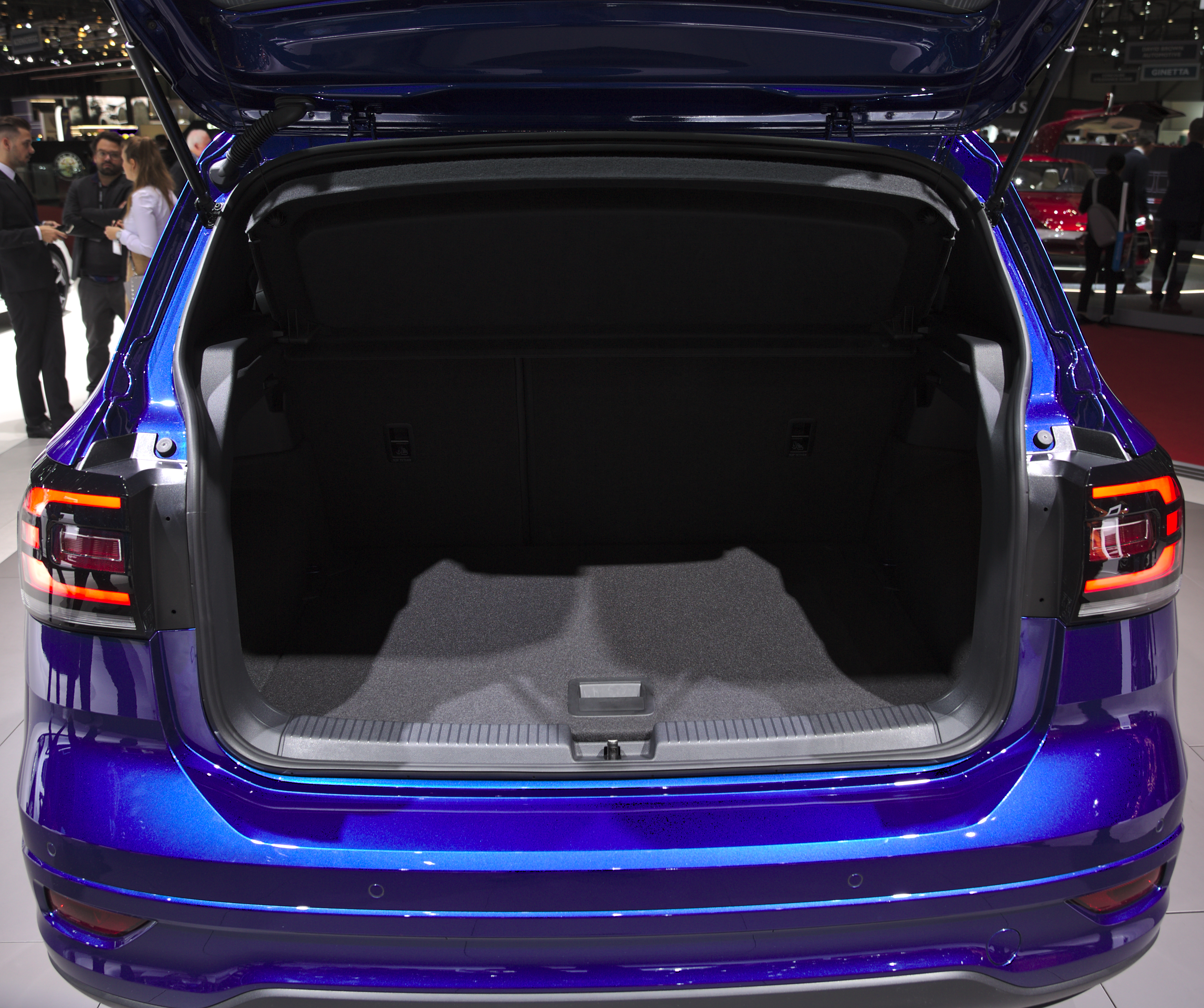 VW T-Cross R-Line at Geneva Motor Show 2019